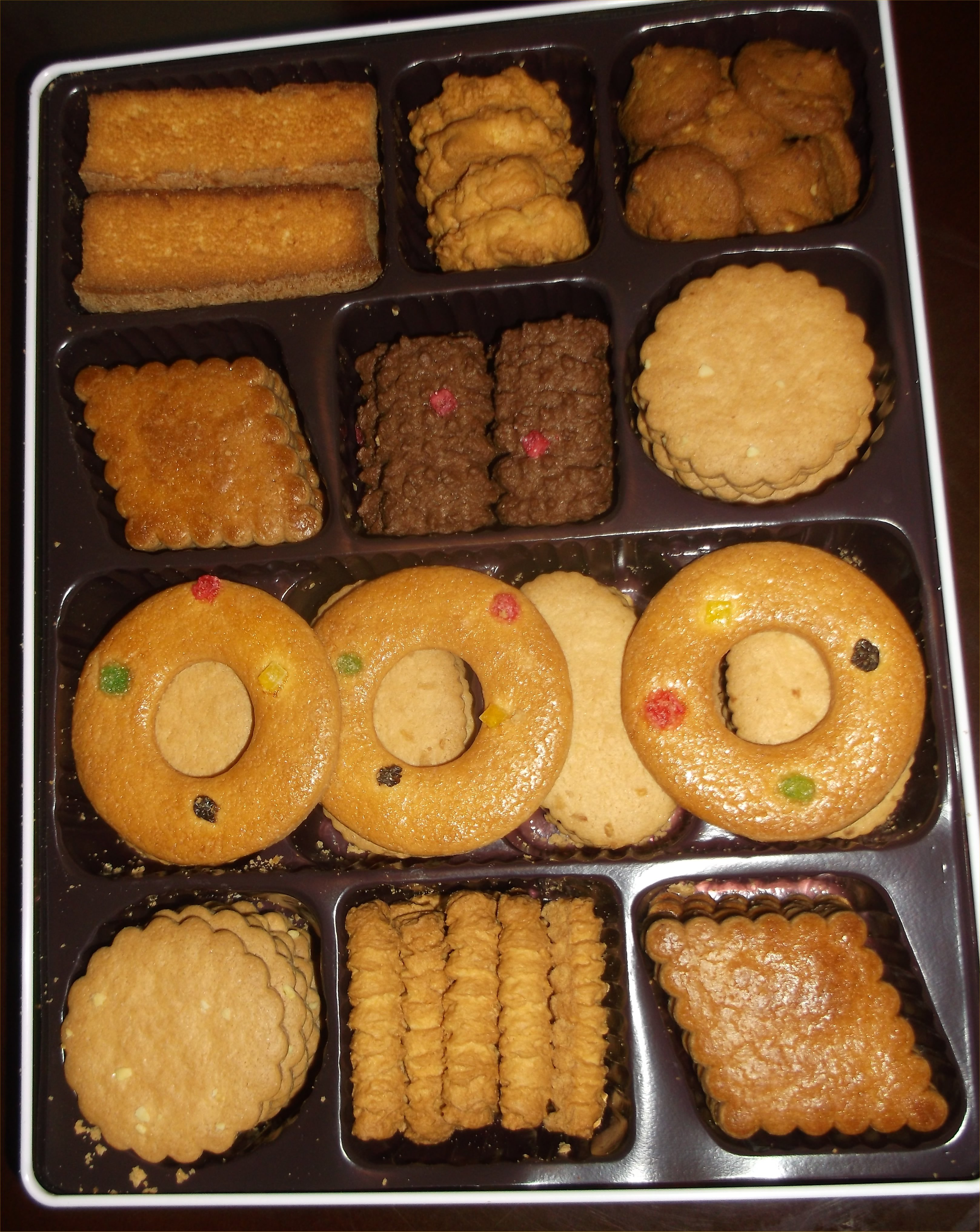 A photo of Cookies of Izumiya Tokyoten(a famous cookie shop in Tokyo.)